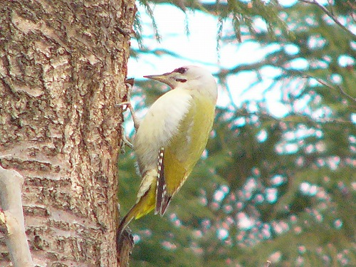 Grey-headed Woodpecker (Picus canus), Hokkaido, Japan